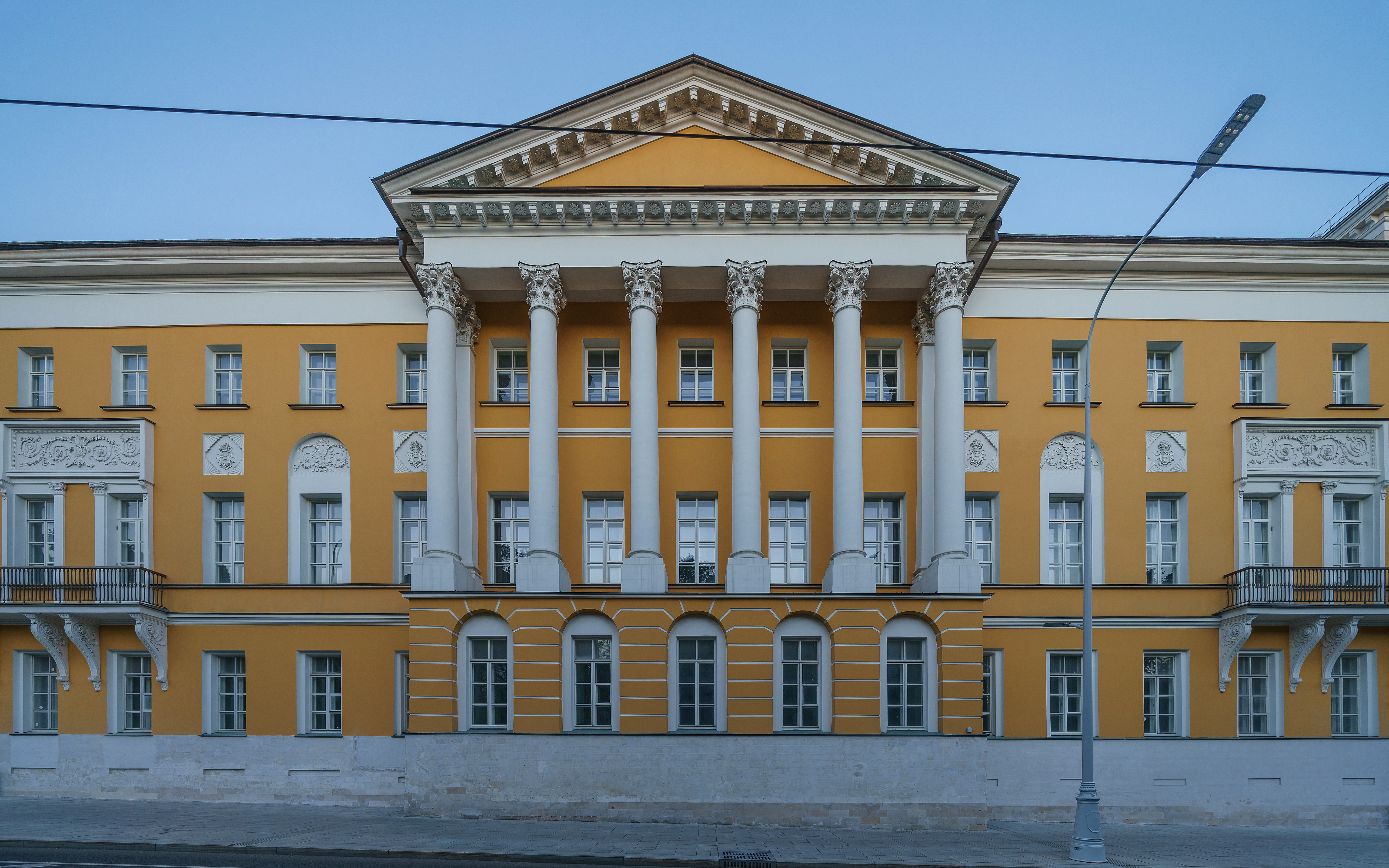 Durasov Palace in Moscow, Russia.